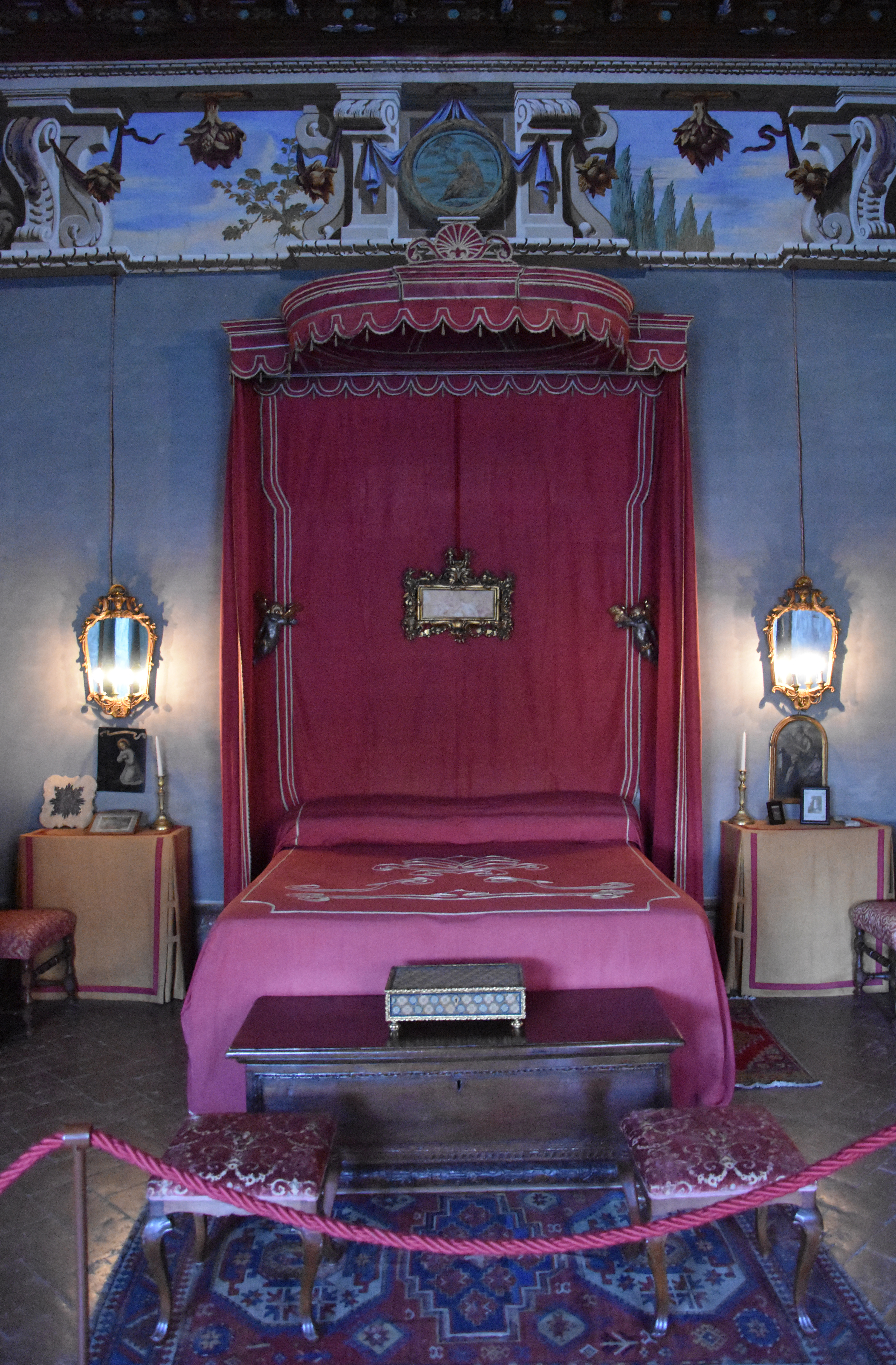 Villa Della Porta Bozzolo in Casalzuigno, Italy.